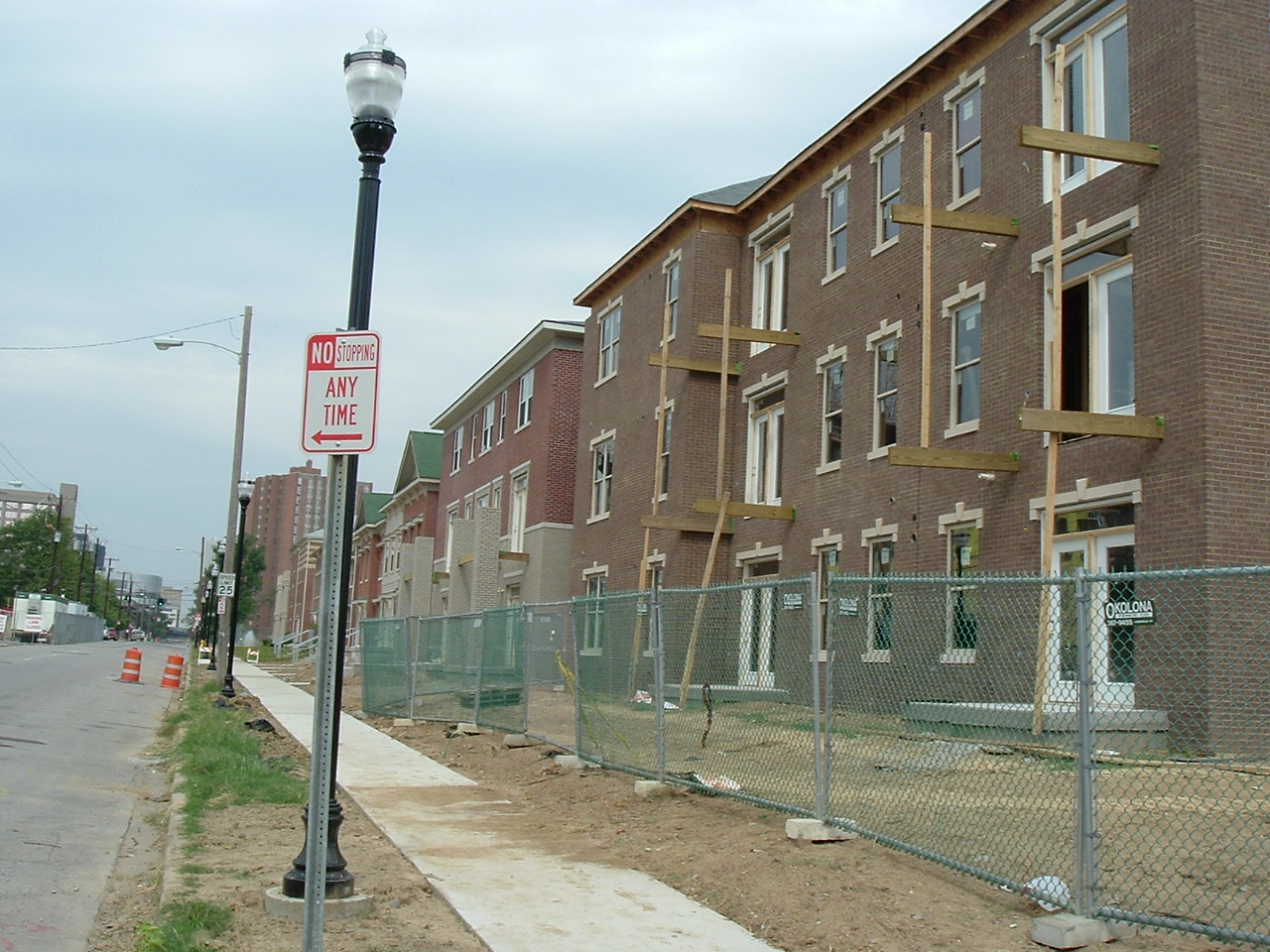 Pic of Liberty Greens in Lou. Taken by uploader, all rights released